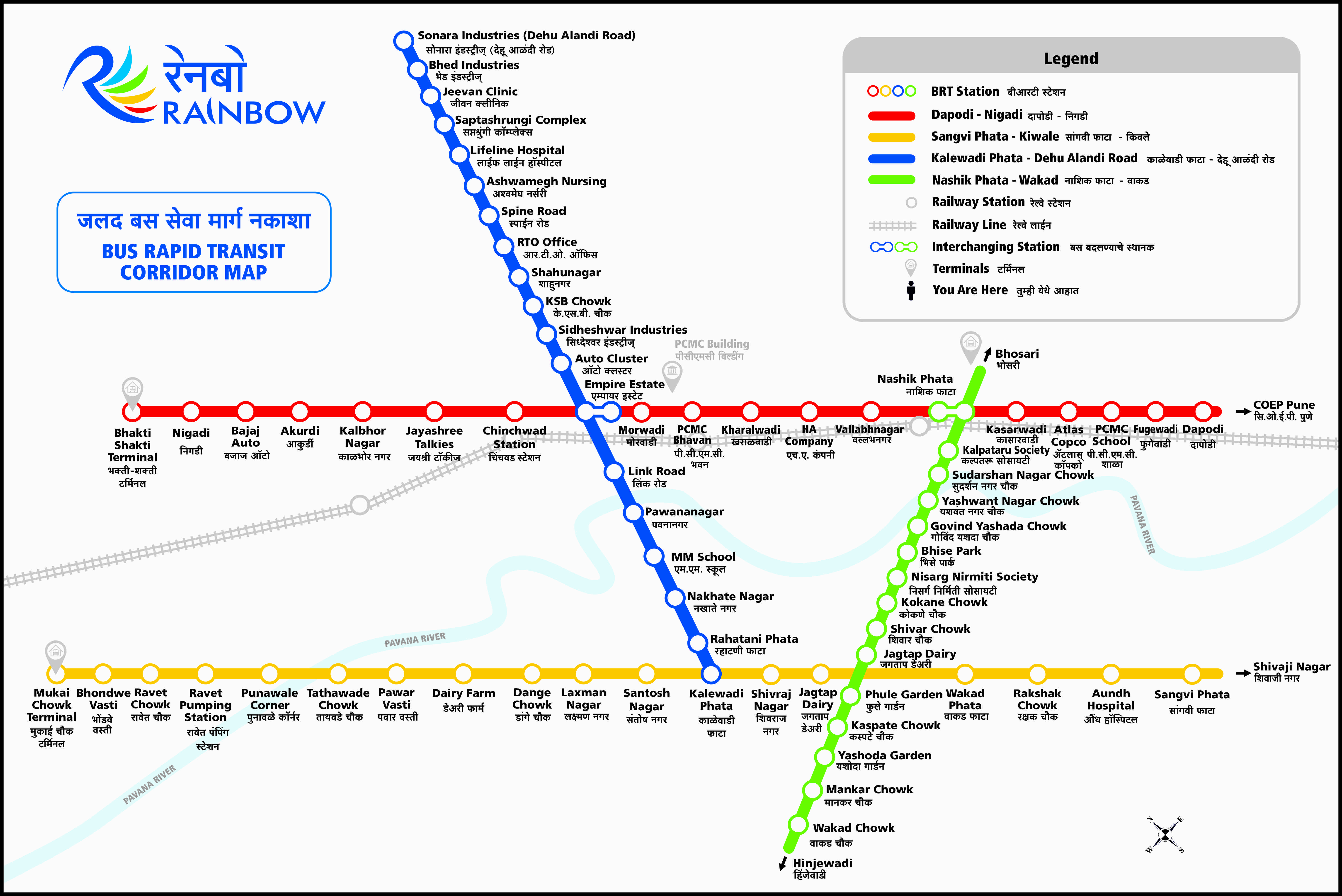 Pimpri-Chinchwad BRTS corridor map-Phase 1